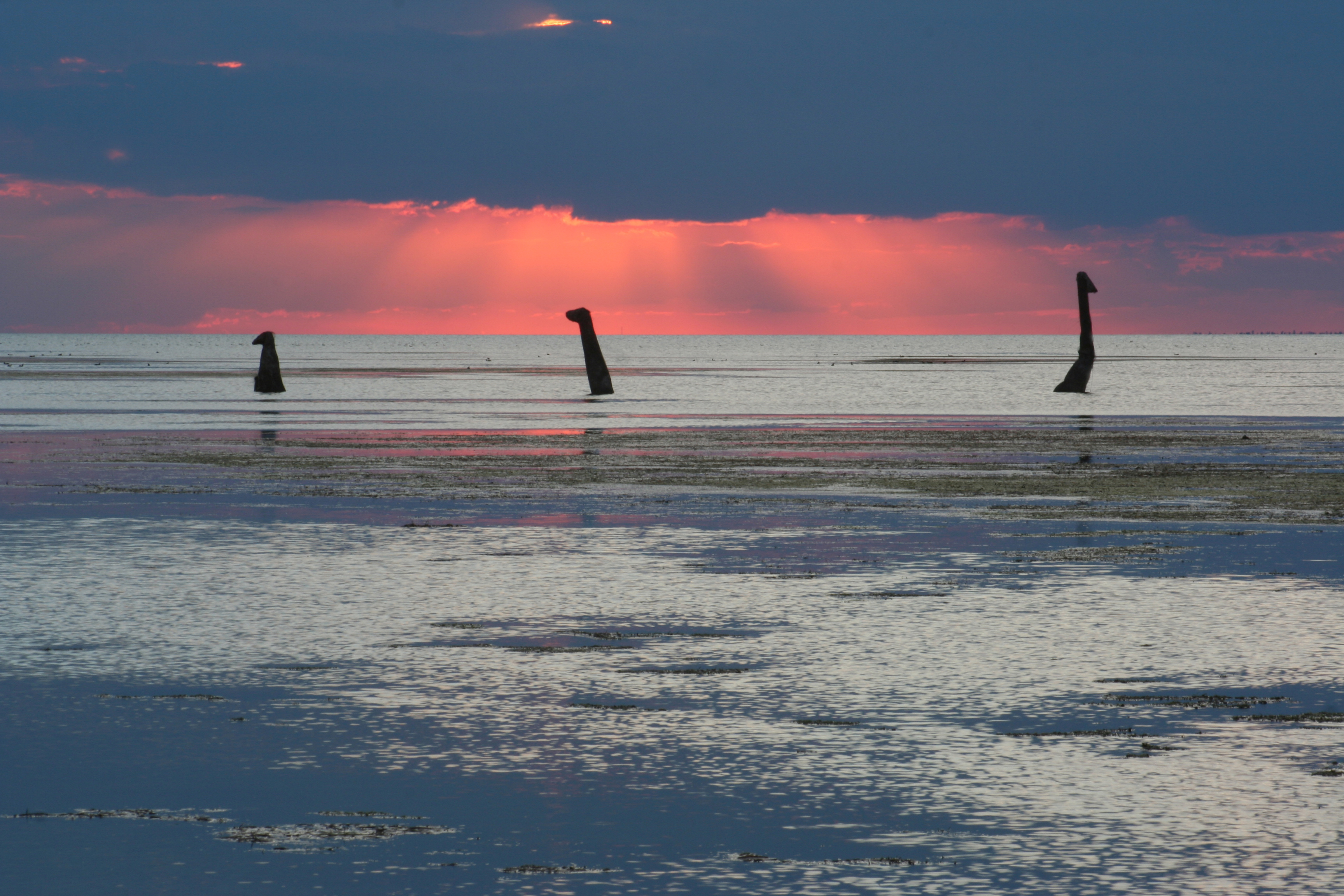 Volodymyr Gulich. "Nessie's family». Installation.